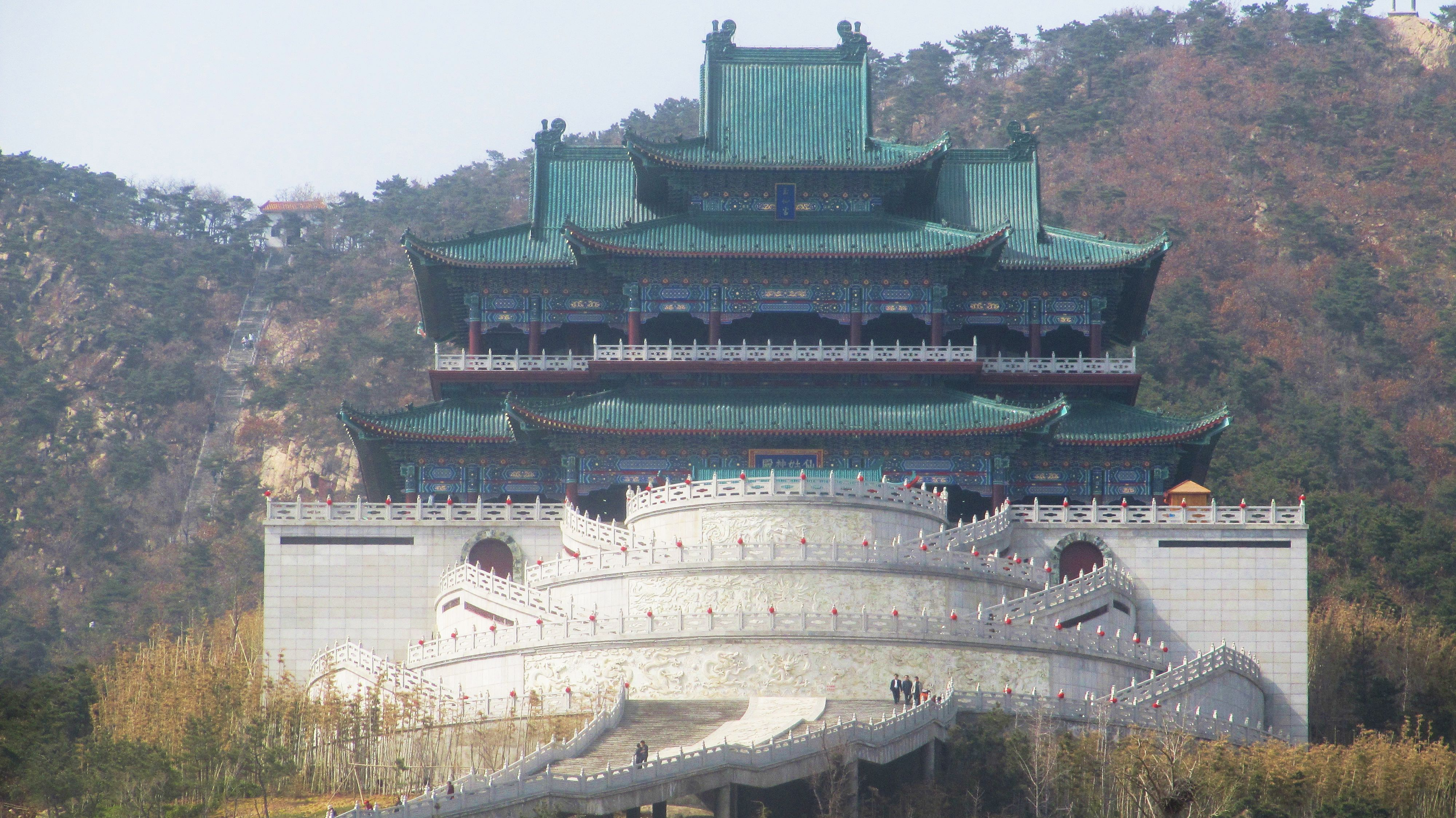 Xian'guting taoist temple in Weihai, Shandong province, China